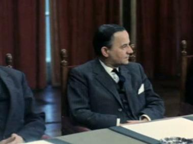 Piet de Jong in 1965